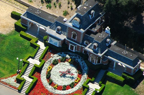 Aerial photo of the train station on Neverland Ranch near Los Olivos, CA. More and larger (c) versions of my aerial photos of the ranch before and after removal of rides may be found on my Flickr page